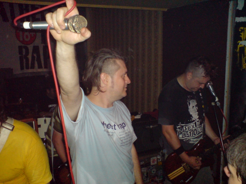 Aleksandar Popov - Dr. Pop, Atheist Rap - Livingroom SKC club, Belgrade.